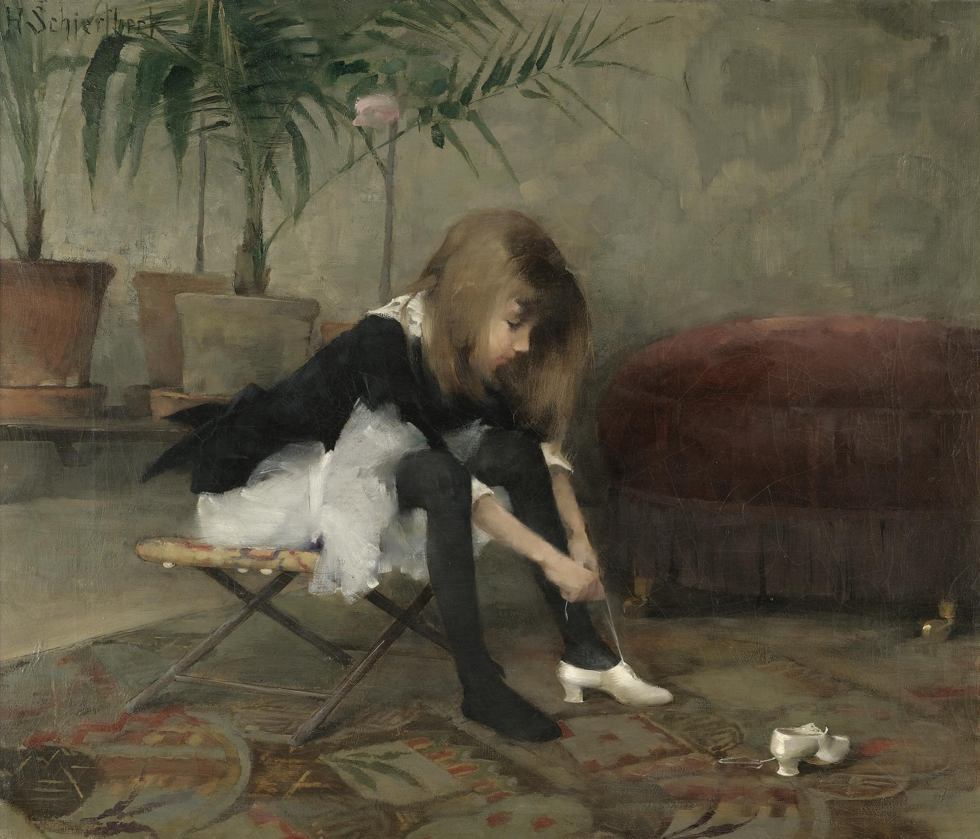 A young girl is putting on her dancing shoes